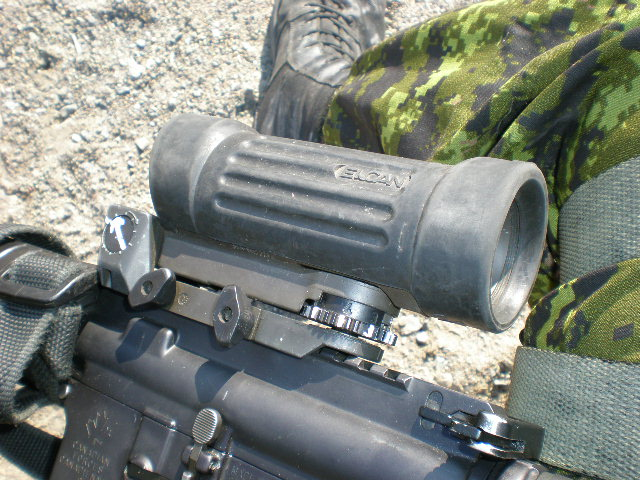 An Elcan C79 in Canadian Forces service. It is mounted onto a C7A1 rifle. Note the white-out marks on the elevation drum and the windage nut, used here at the Canadian Forces Small Arms Competition.